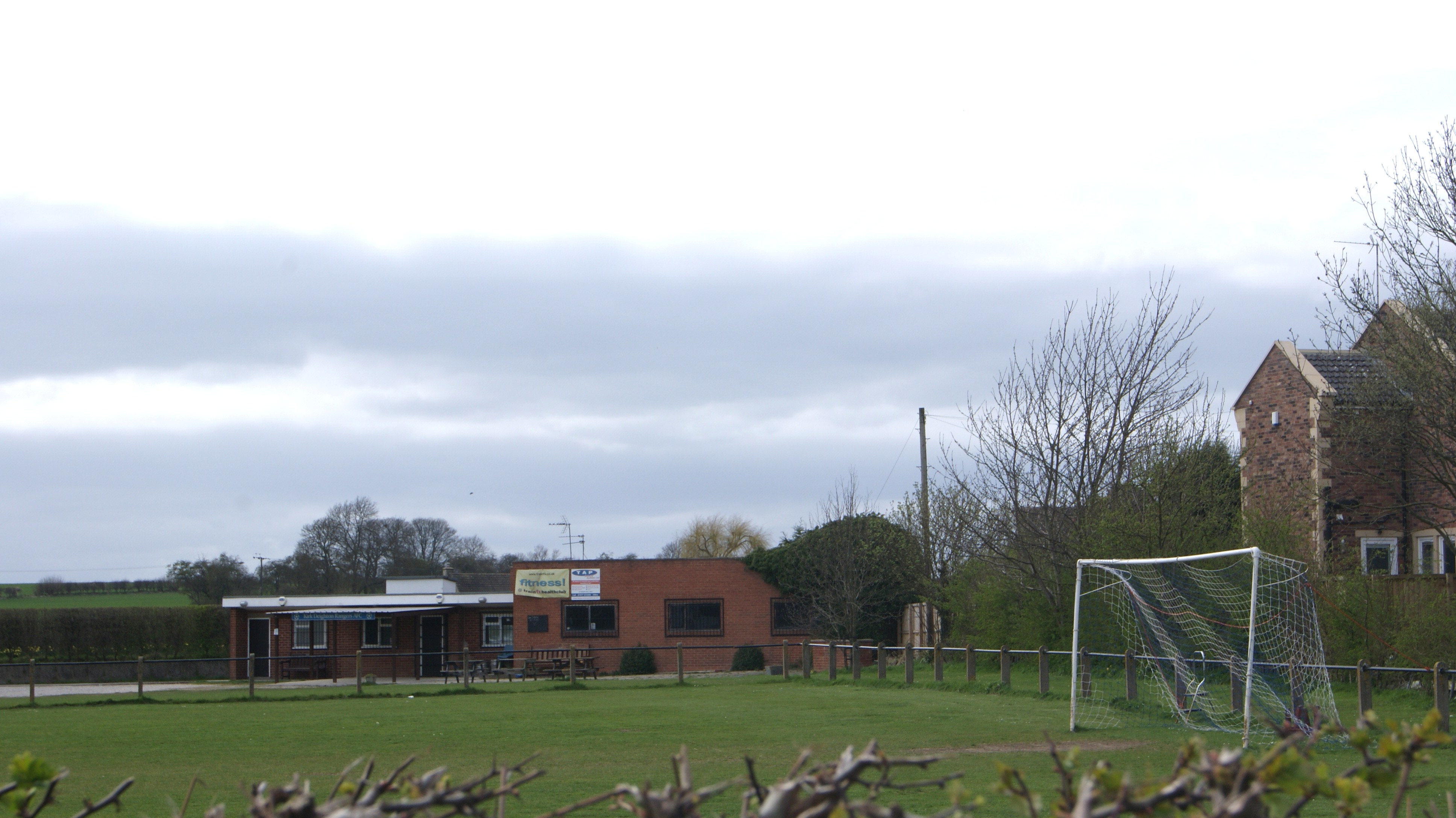 The main ground of Kirk Deighton Rangers Football Club in Kirk Deighton, North Yorkshire. Taken on the afternoon of Tuesday the 23rd of April 2013.